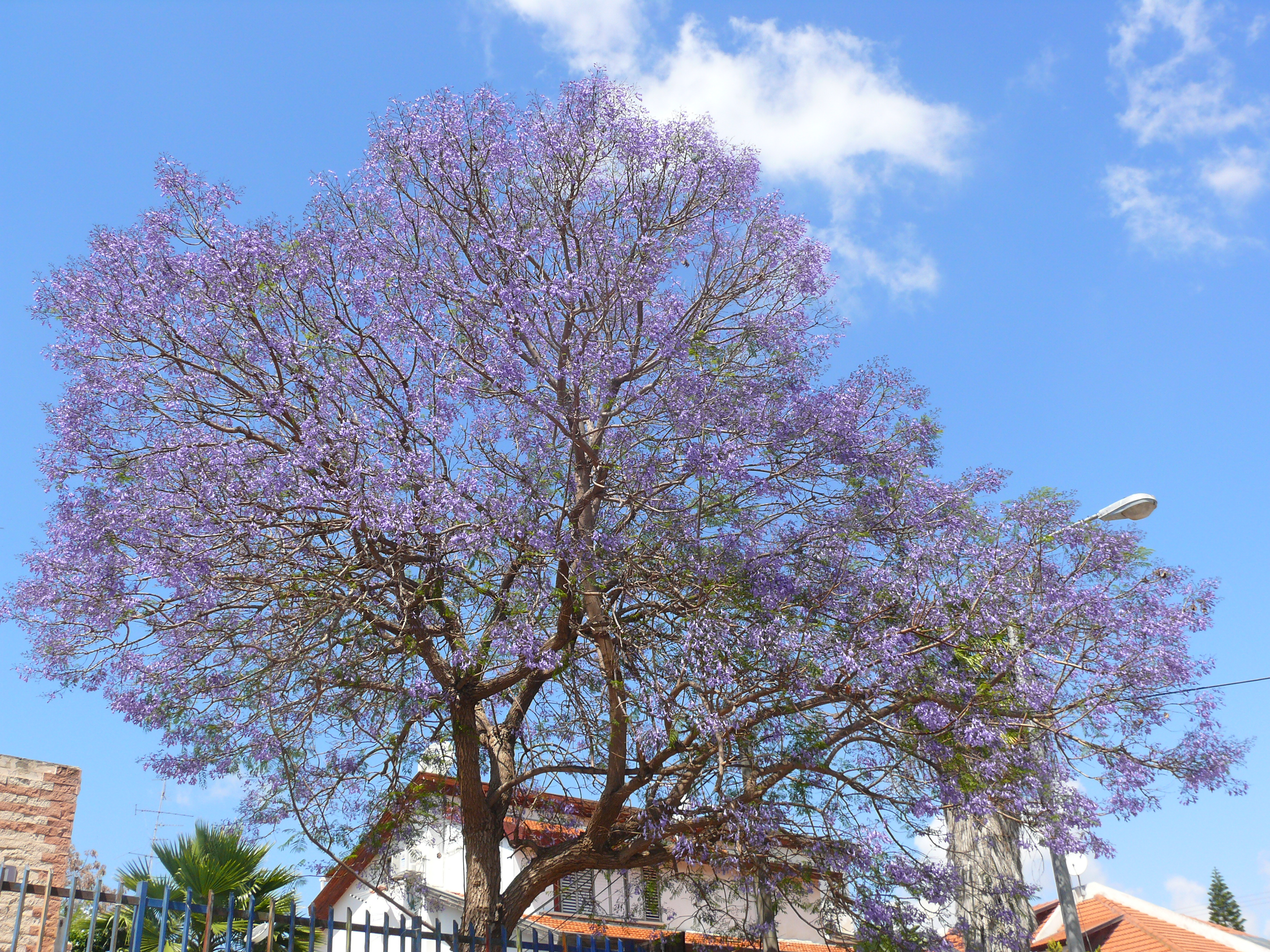 Jacaranda mimosifolia